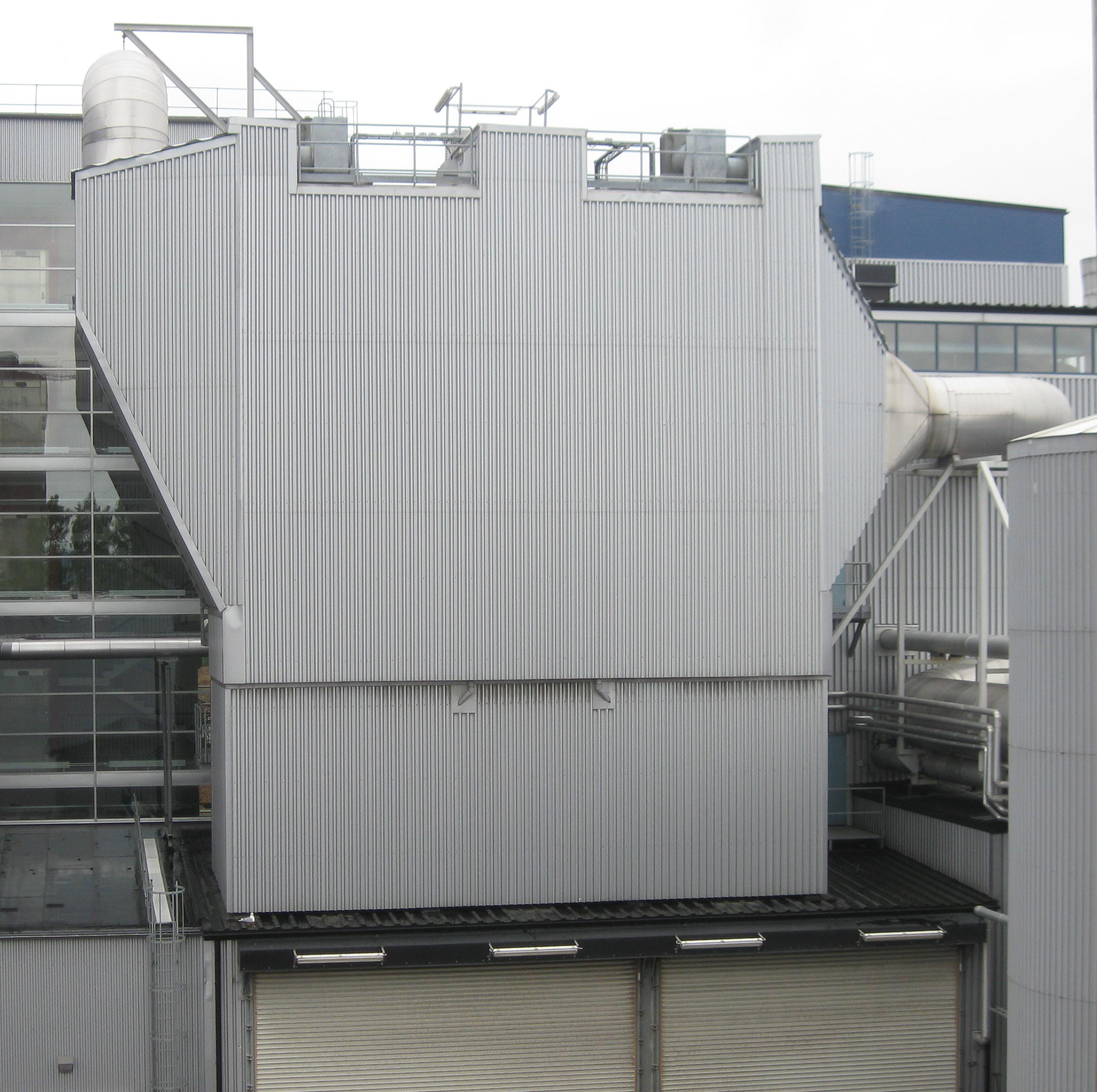 Electrostatic precipitator at a district heating plant.